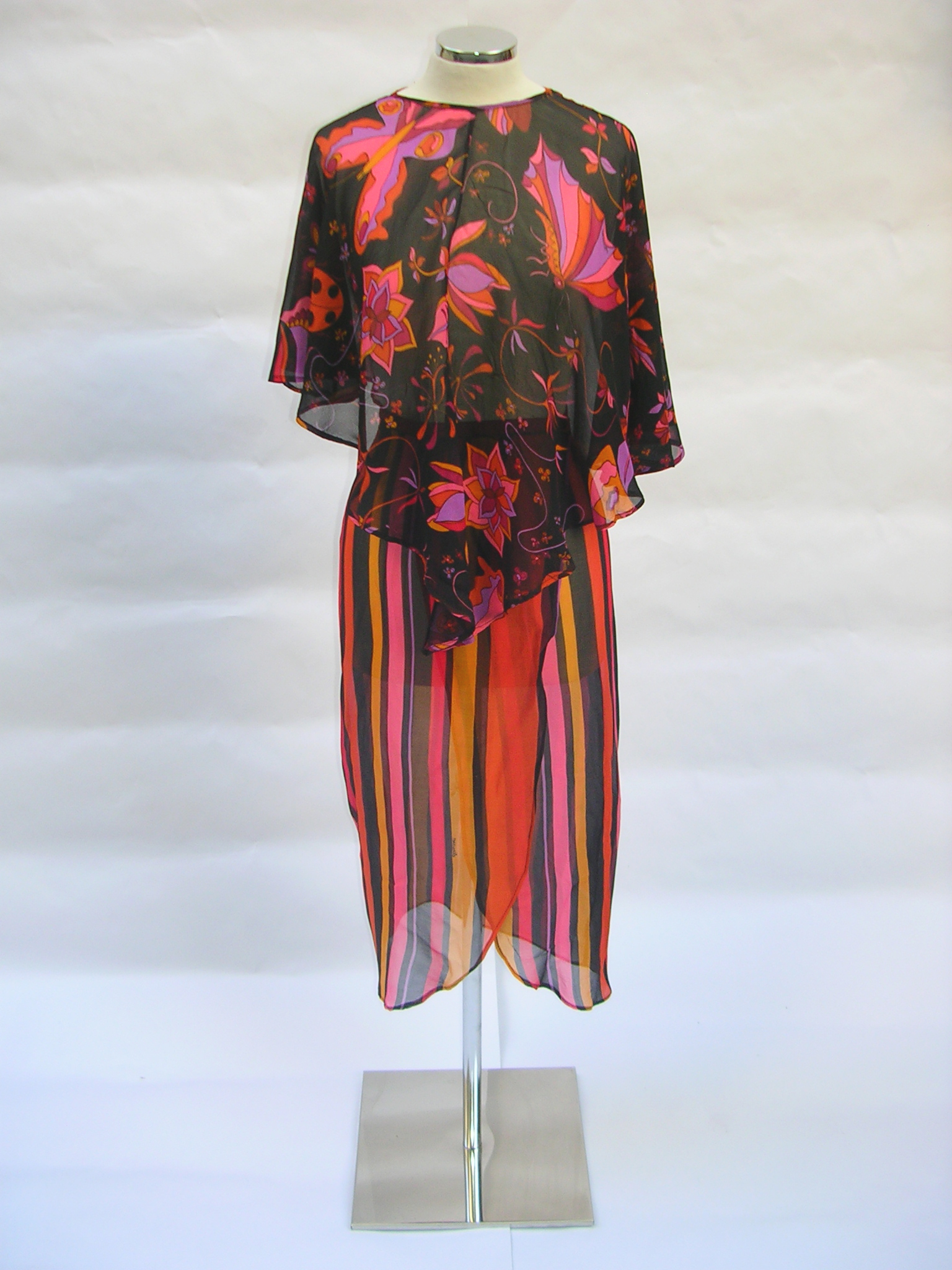 Dress by Yannis Tseklenis from the "Insects" collection, 1972